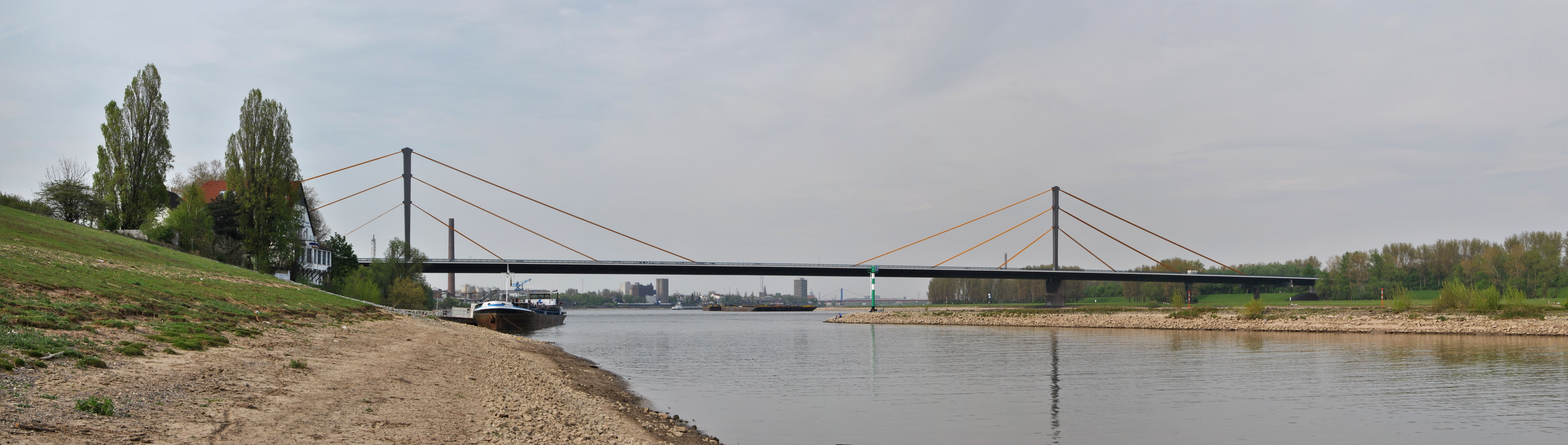 The south side of the Rhine bridge Neuenkamp in Duisburg, Germany, which spans the motorway BAB 40 over the Rhine.